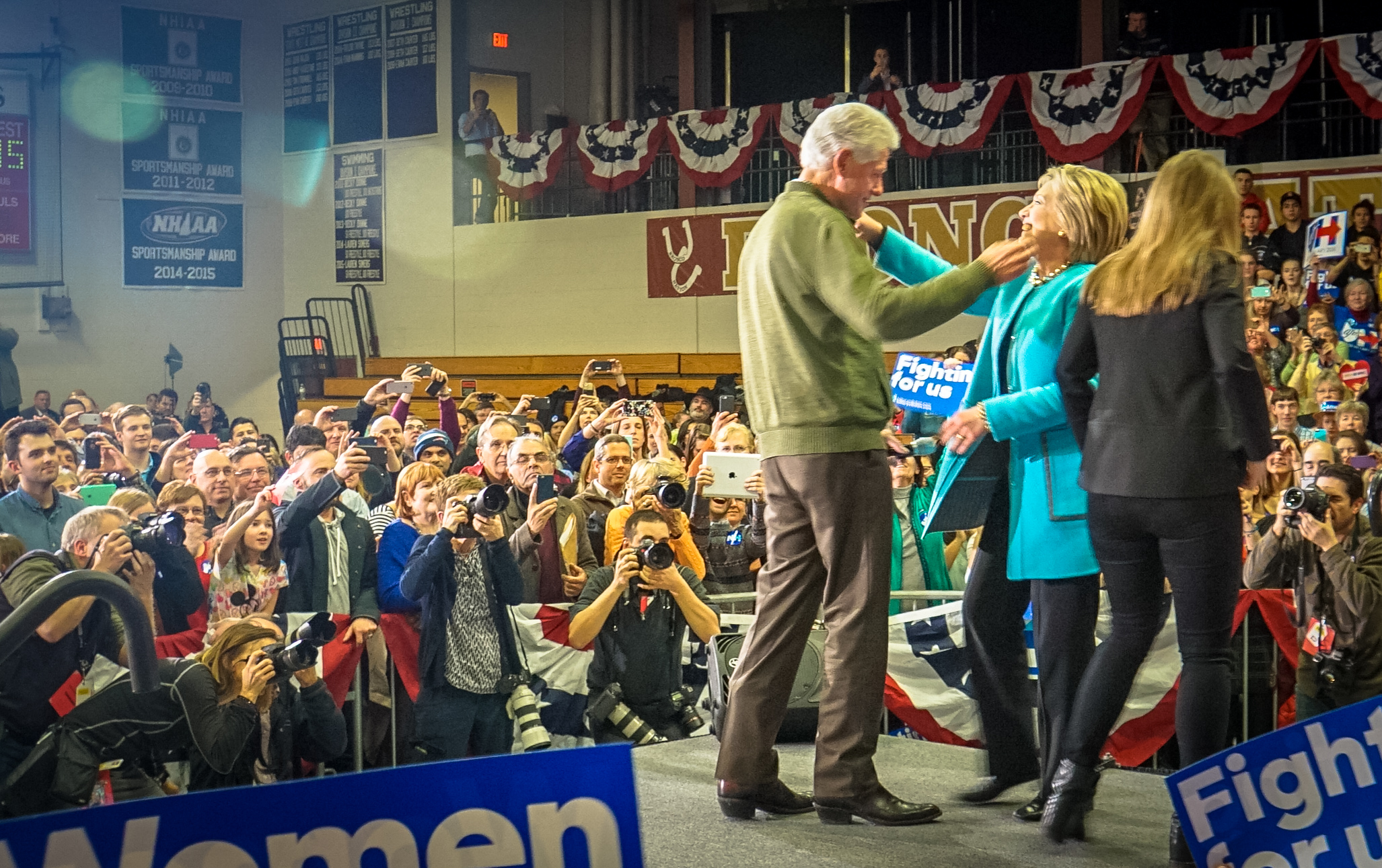 2016.02.08 Presidential Primary, Manchester, NH USA 02718